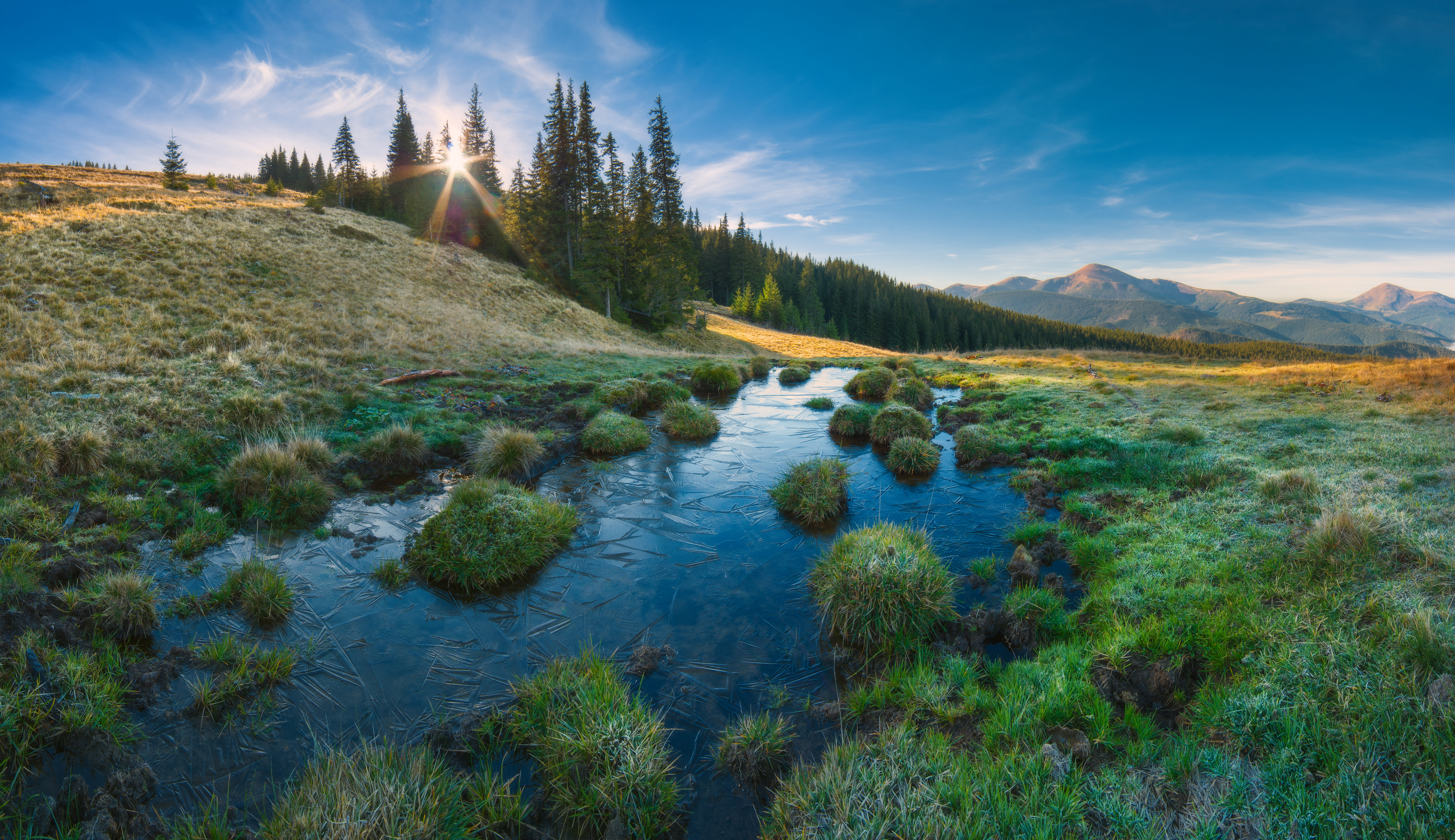 Carpathian Biosphere Reserve, Zakarpattia Oblast, Ukraine